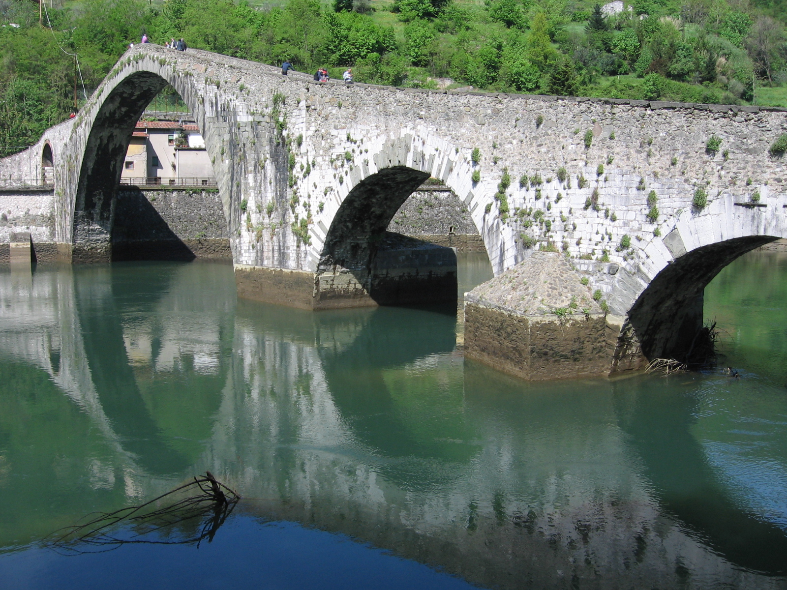 Ponte della Maddalena (also known as Devil's Bridge)